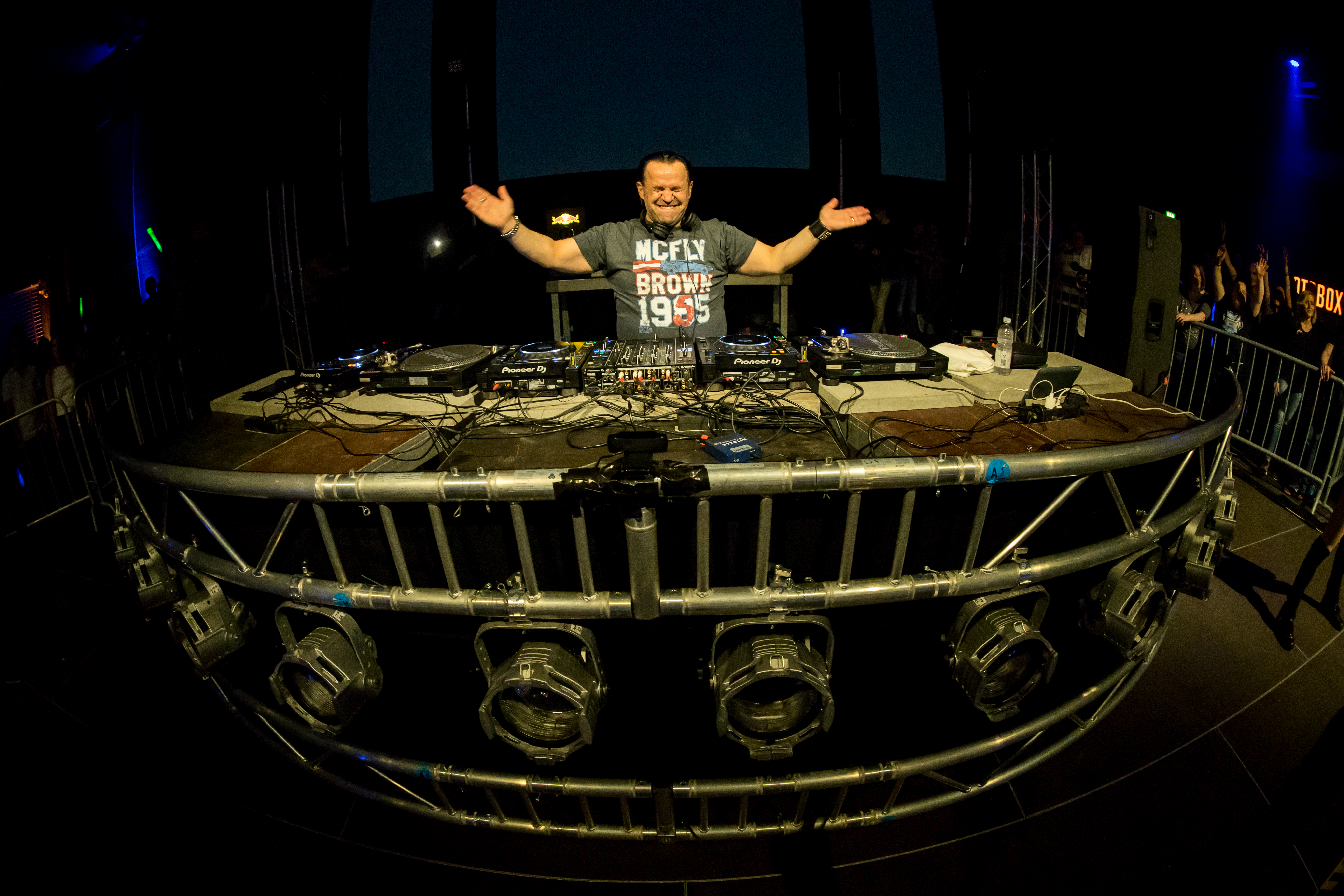 DJ Quicksilver during Sunshine Live Retroactive - The 90s Rave at Maimarktclub, Mannheim, Baden-Württemberg, Germany on 2017-04-08, Photo: Sven Mandel